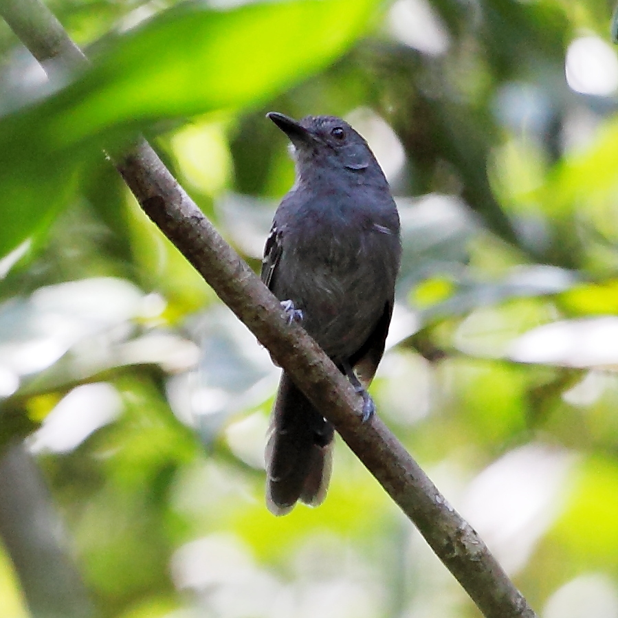 Dusky Antbird at Manaus - AM - Brazil